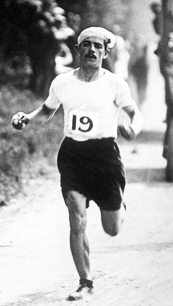 Olympic Games, London, England, Marathon, Italy's Dorando Pietri.